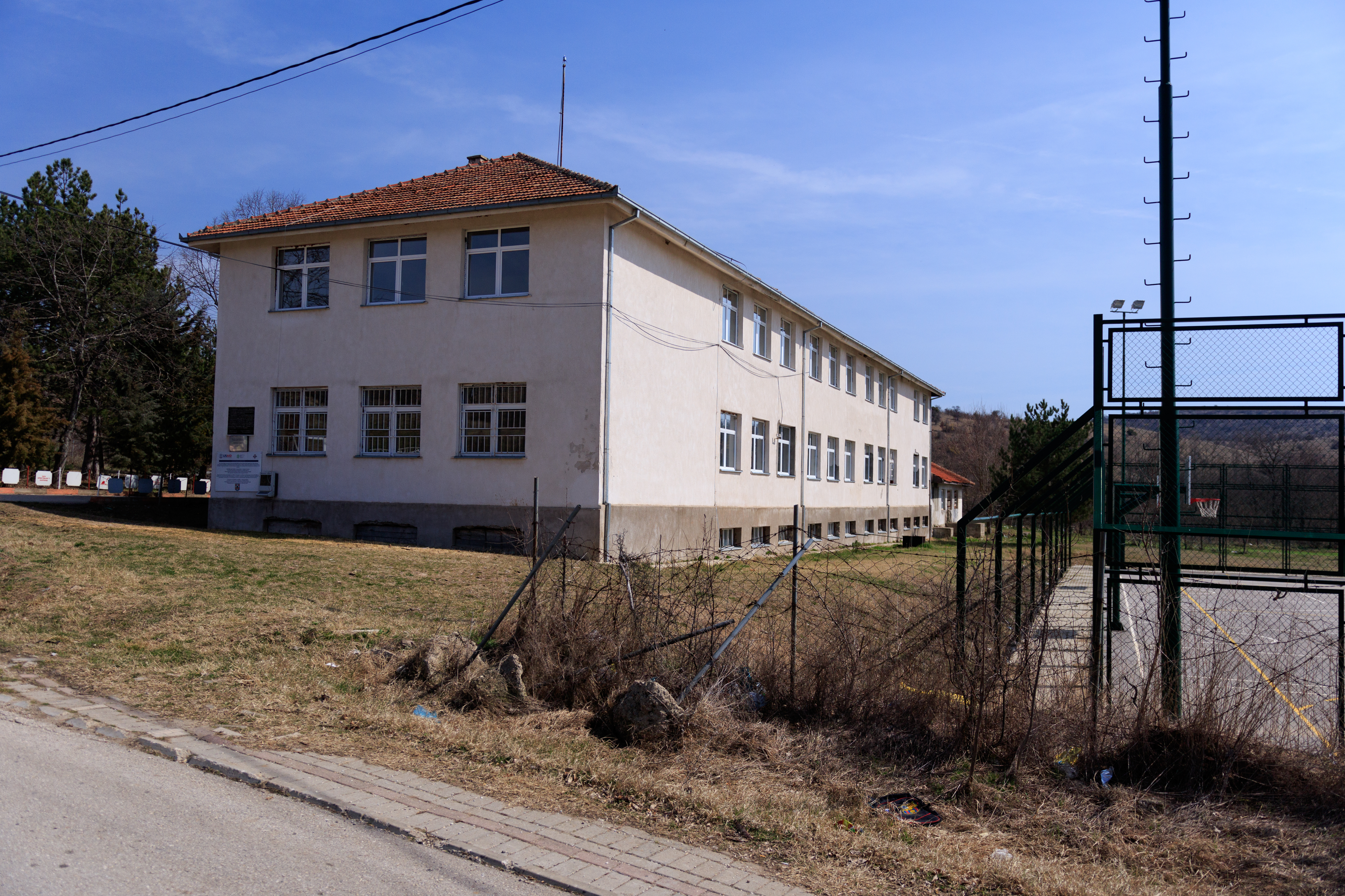 View of the primary school in the village Dragomance